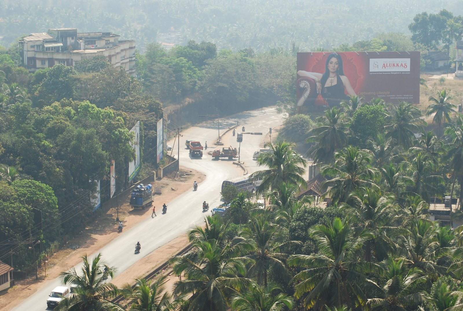 Mangalore Nantoor Cross prior to the NHAI road widening project